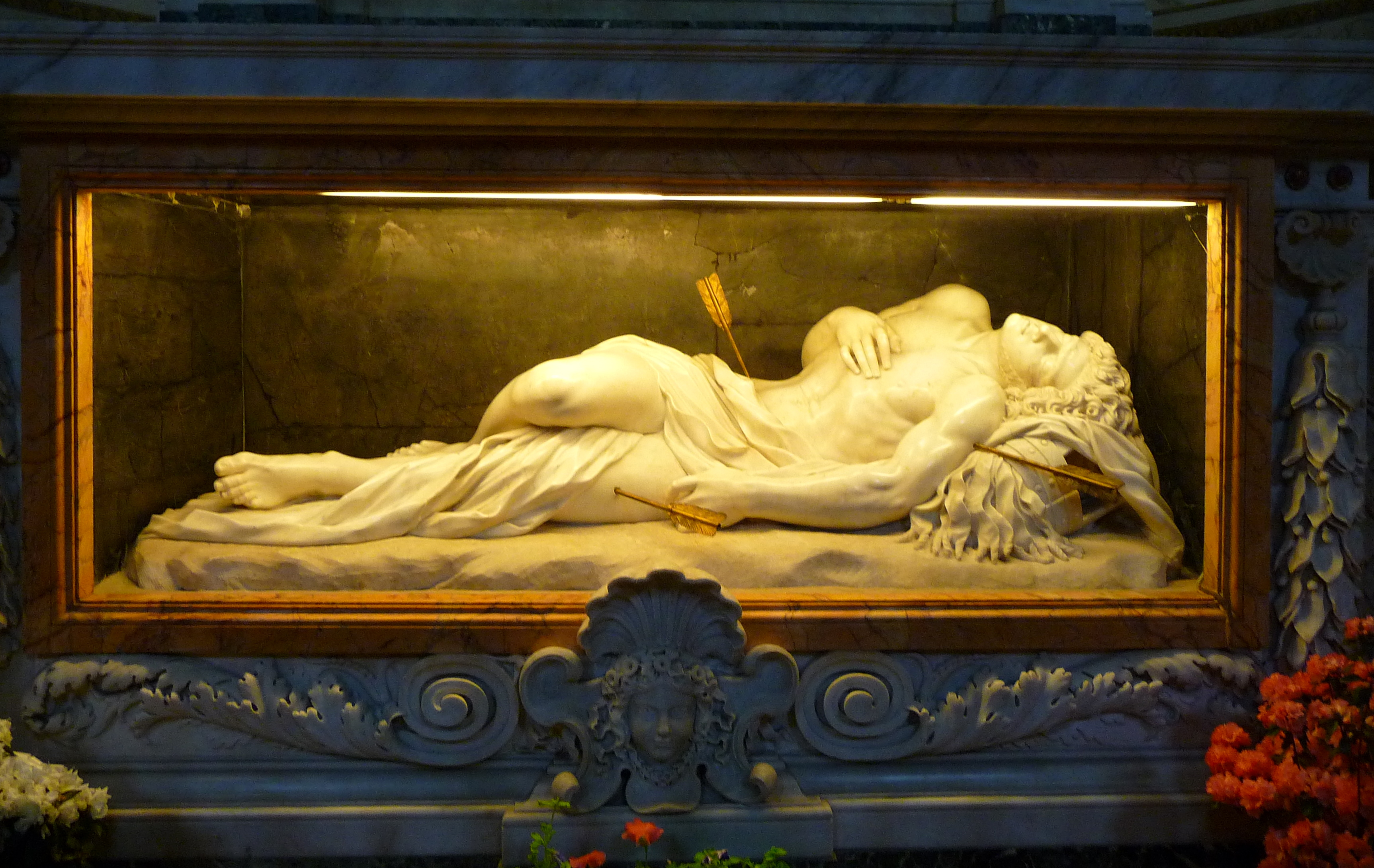 Sculpture of Saint Sebstian by Giuseppe Giorgetti; San Sebastiano fuori le mura, Rome